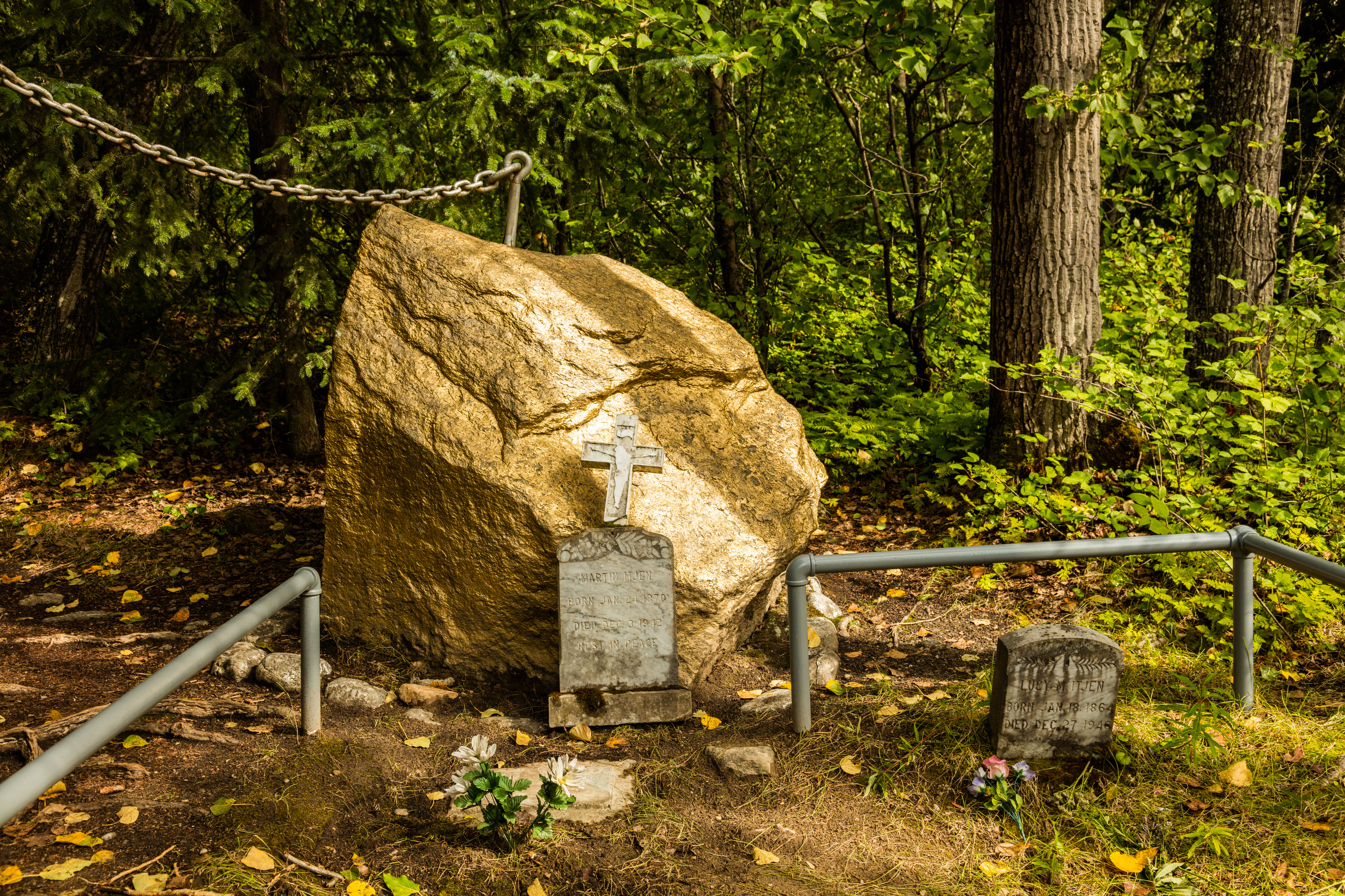 Gold Rush Cemetery, Skagway, Alaska, USA